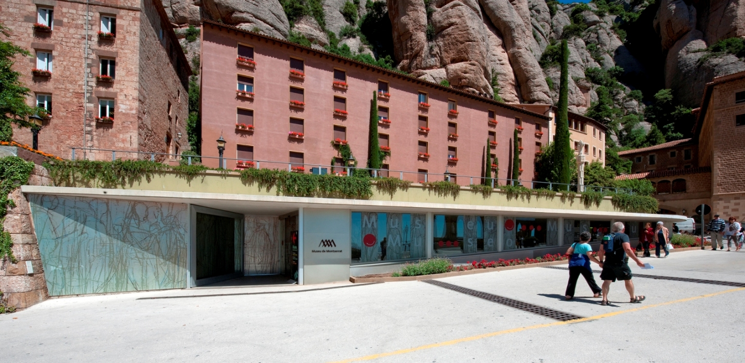 Museum of Montserrat, Building, entrance to the museum